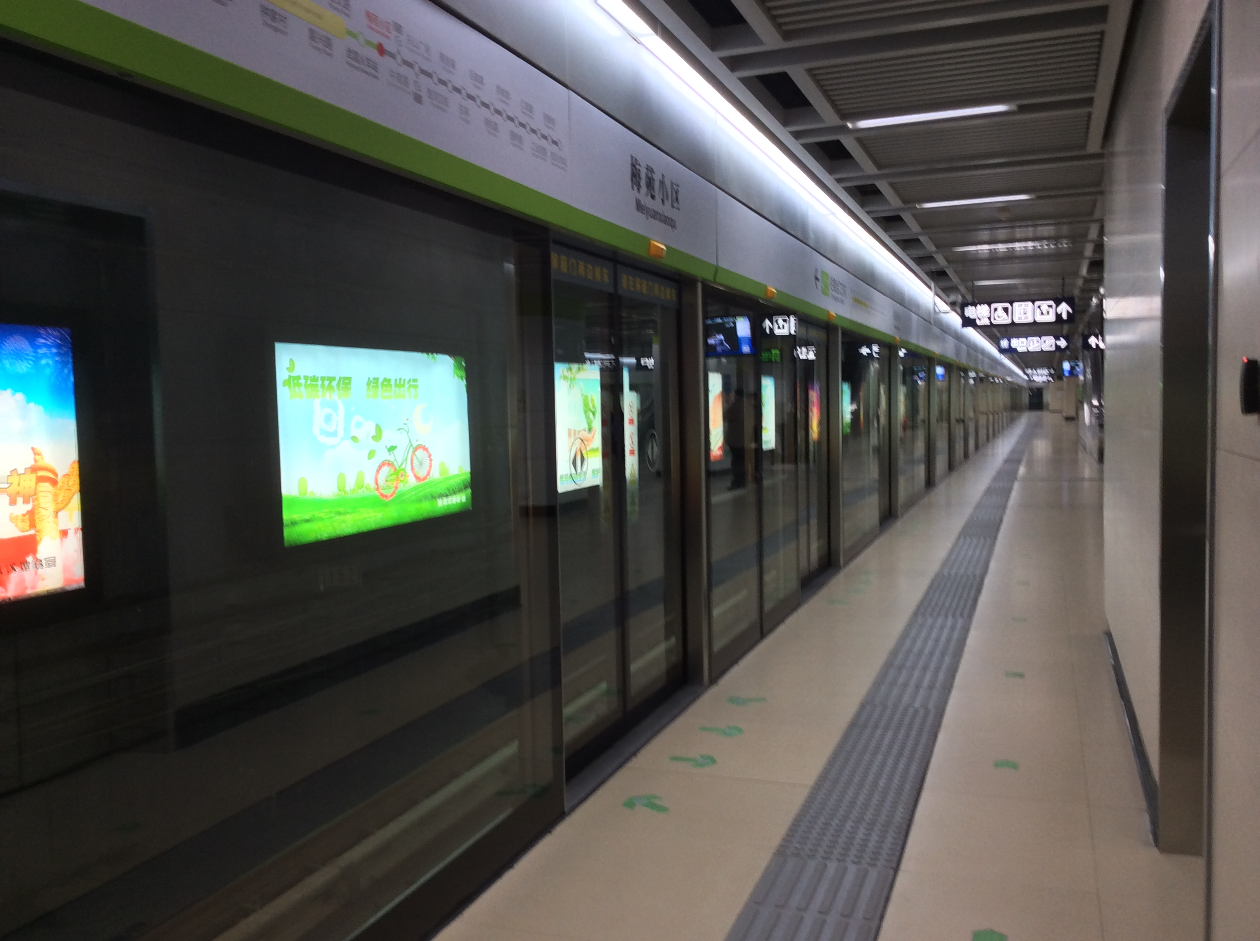 车站站台层